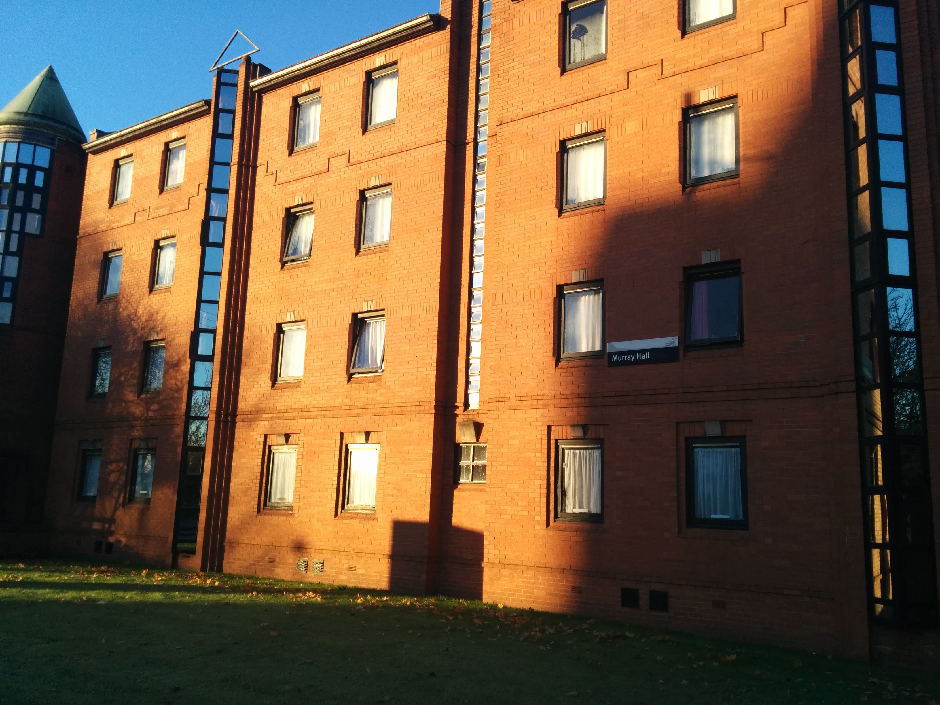 Picture of Murray Hall (Strathclyde)